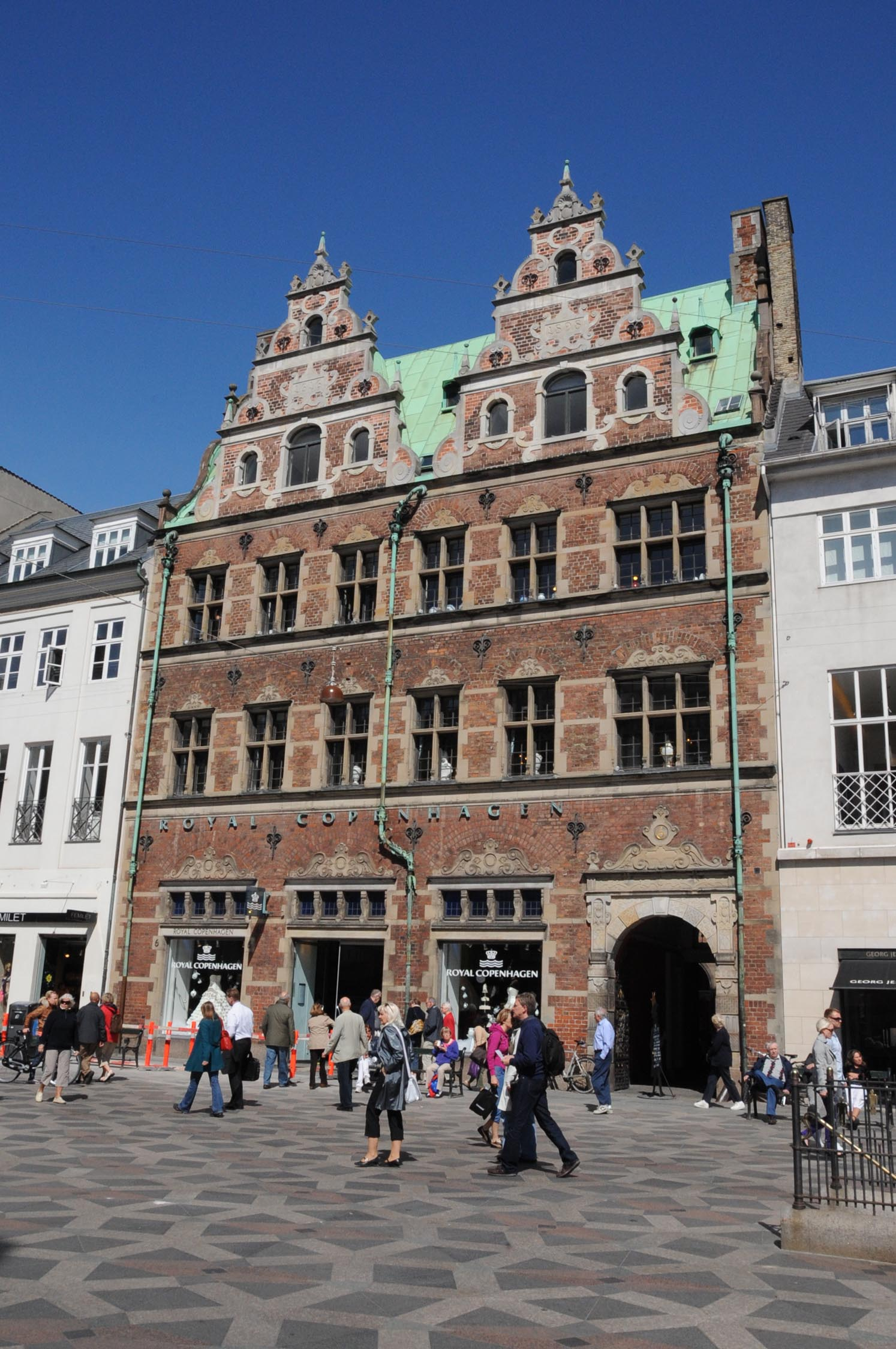 Royal Copenhagen flagship store on Amagertorv 6, close to the Stroget main shopping street.